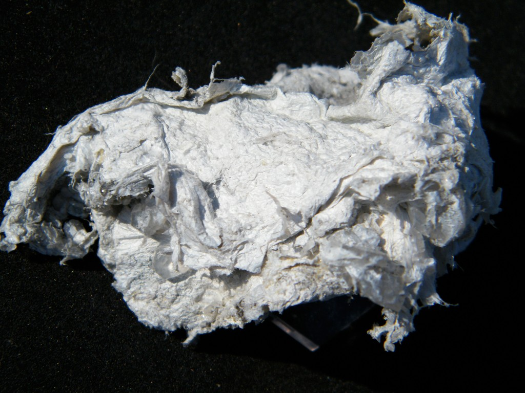 Palygorskite, Calcite (Dimensions: rolled up, 2" x 2", unrolled, 4" x 2") Locality: Metaline Falls, Metaline District, Pend Oreille Co., Washington, USA Original description: It's not often that you can roll up a mineral specimen. This flexible mat of palygorskite from Oregon is dramatically draped over a plastic stand, and if you look carefully, you can see some clear calcite crystals (about 1/4") enwrapped in the palygorskite.